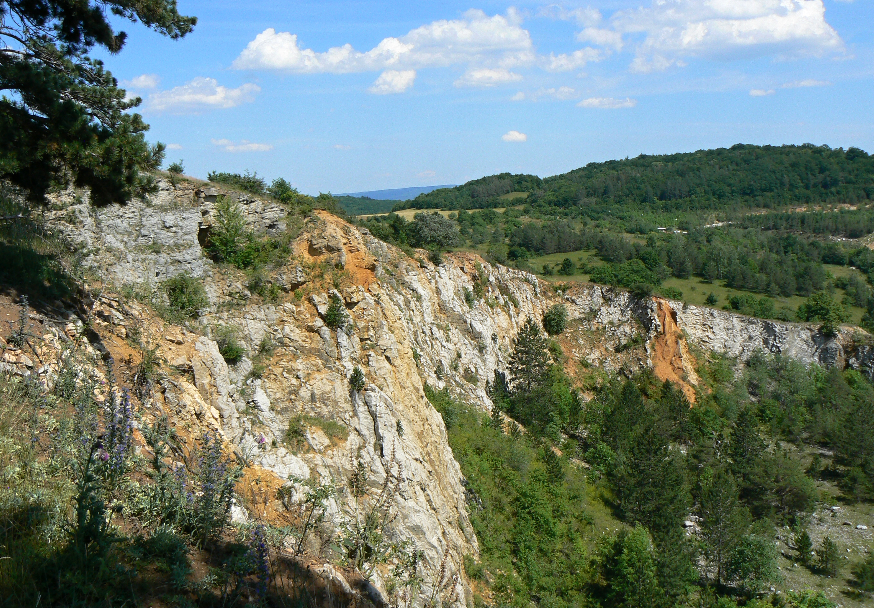 Nature monument Zlatý kůň in Beroun District